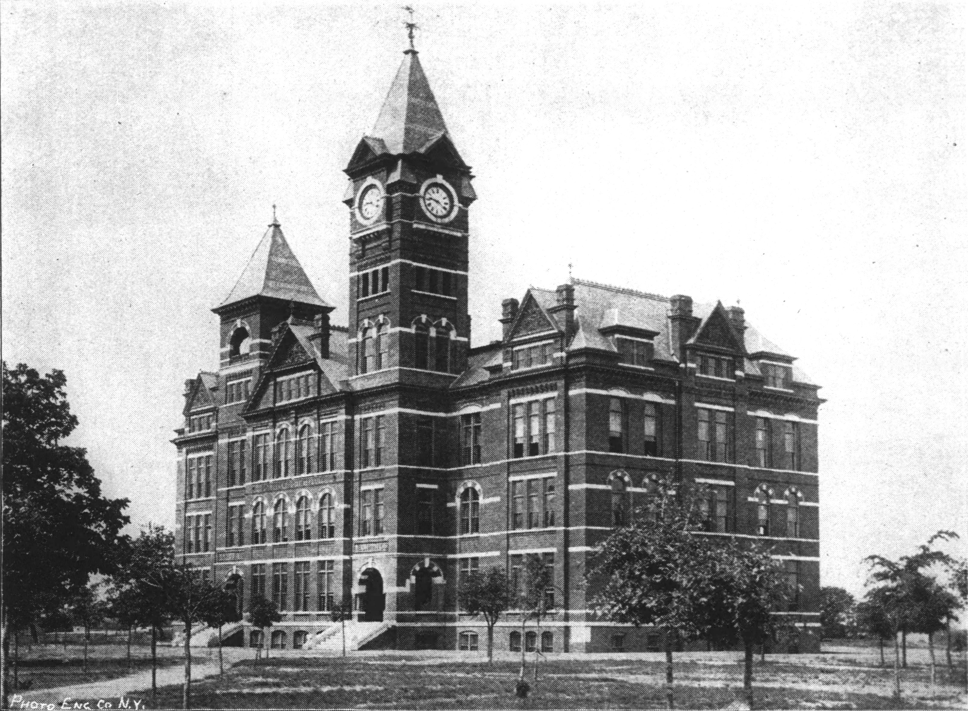 Main Building, later renamed Samford Hall, located on South College Street in Auburn, Alabama, was built in 1888 to replace the original building of the East Alabama Male College (now Auburn University) after it burned in 1887. Samford Hall currently houses the offices of the Auburn University administration. This photograph was first published in the 1890 - 1891 Catalog of the State Agricultural and Mechanical College, Alabama Polytechnic Institute in Auburn, Alabama.